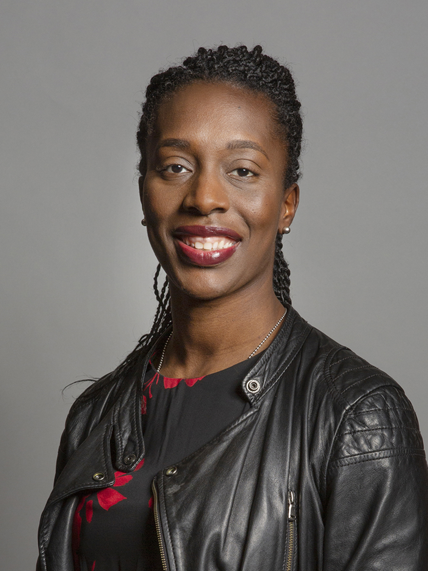 Official portrait of Florence Eshalomi MP 3×4 portrait of Florence Eshalomi